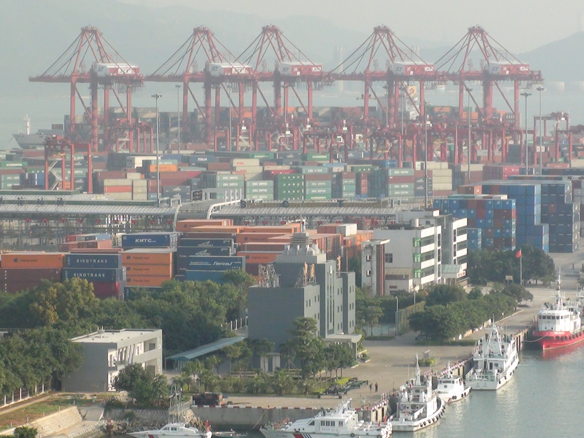 Chiwan port in Shenzhen,China